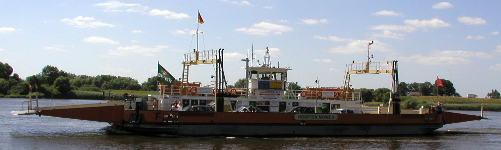 car ferry crossing the Elbe near Hamburg. Own work, 14th July 2006, Borowski